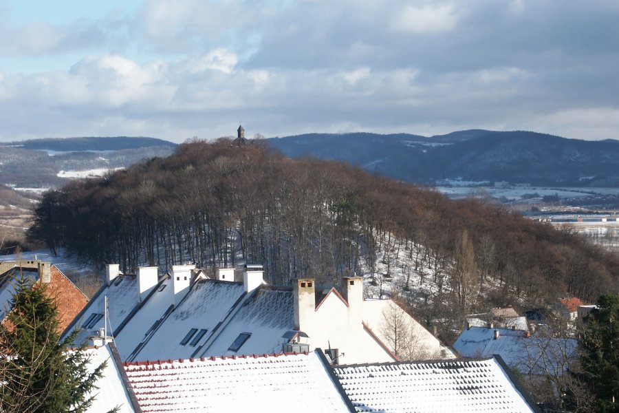 Horka hill as viewed from Chlumec from the west side. Trinity Chapel can be seen on top of the hill.